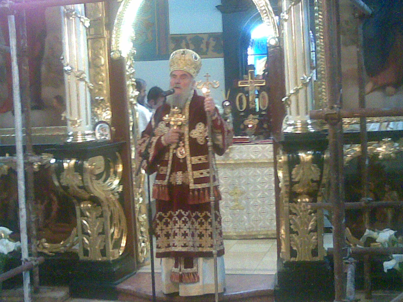 Patriarch Irinej of Serbia at the Virgin's Church in Zemun